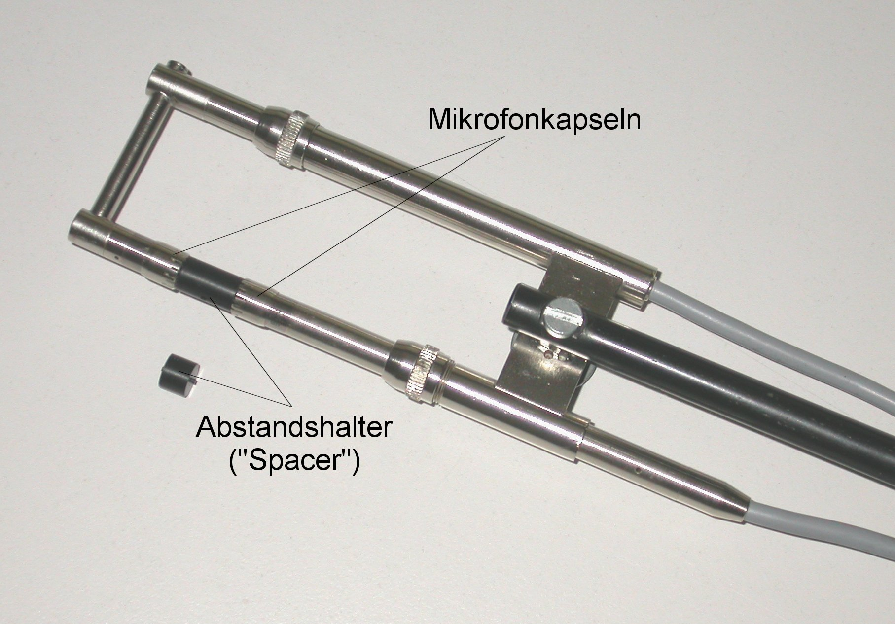 sound intensity probe (with german labels)